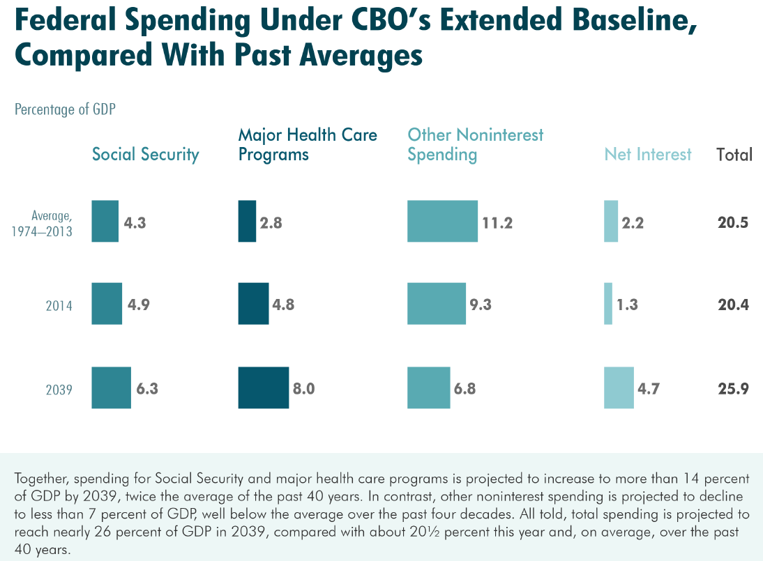 CBO graphic from the 2014 Long-Term Budget Outlook. Various major categories of spending relative to GDP, over time. This shows the drivers of long-term deficits.